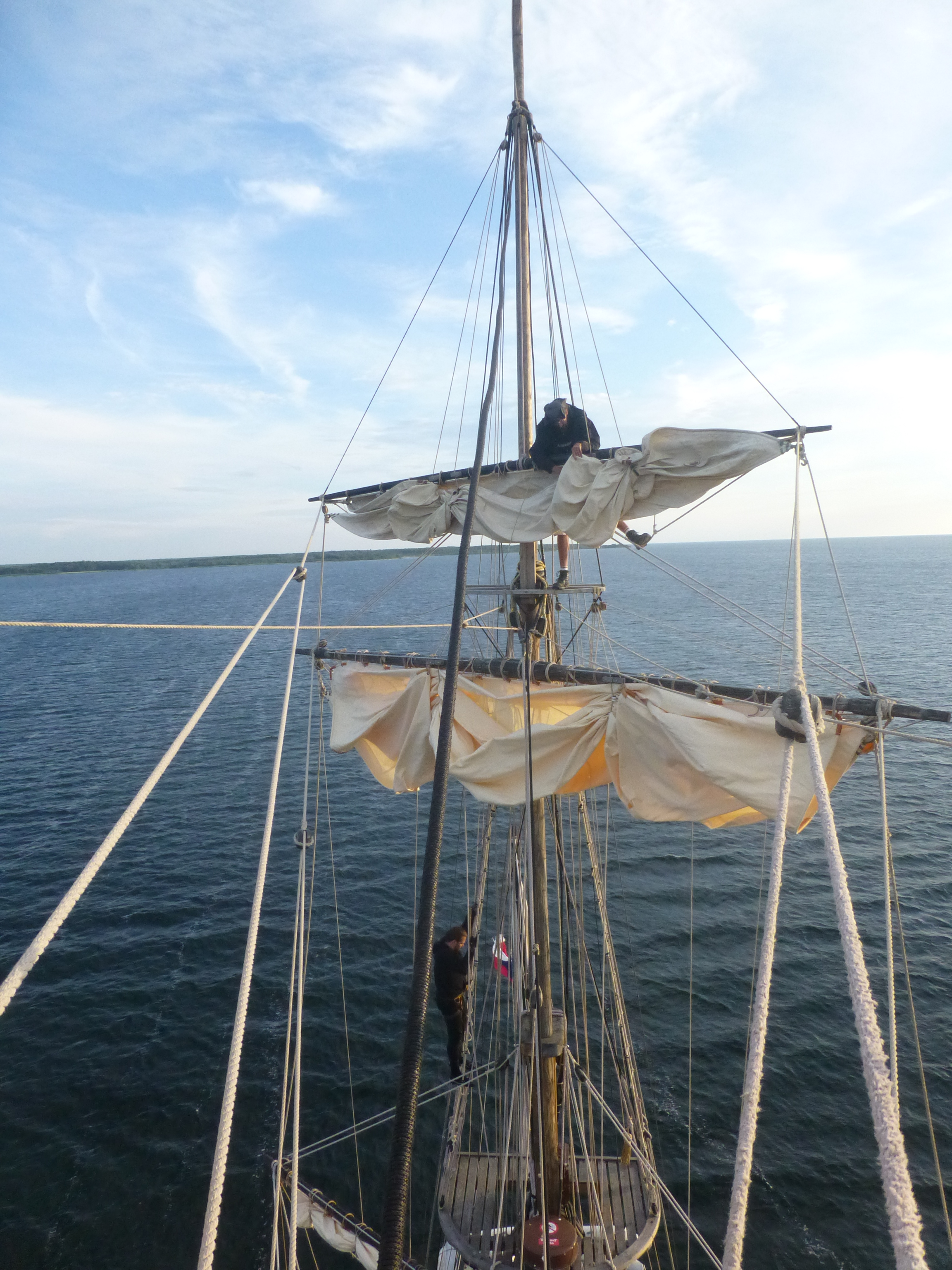 Gabiers closing the sails of the Grand-Mast of Grace in 2017 in the Burgsvik bay (Sweden).